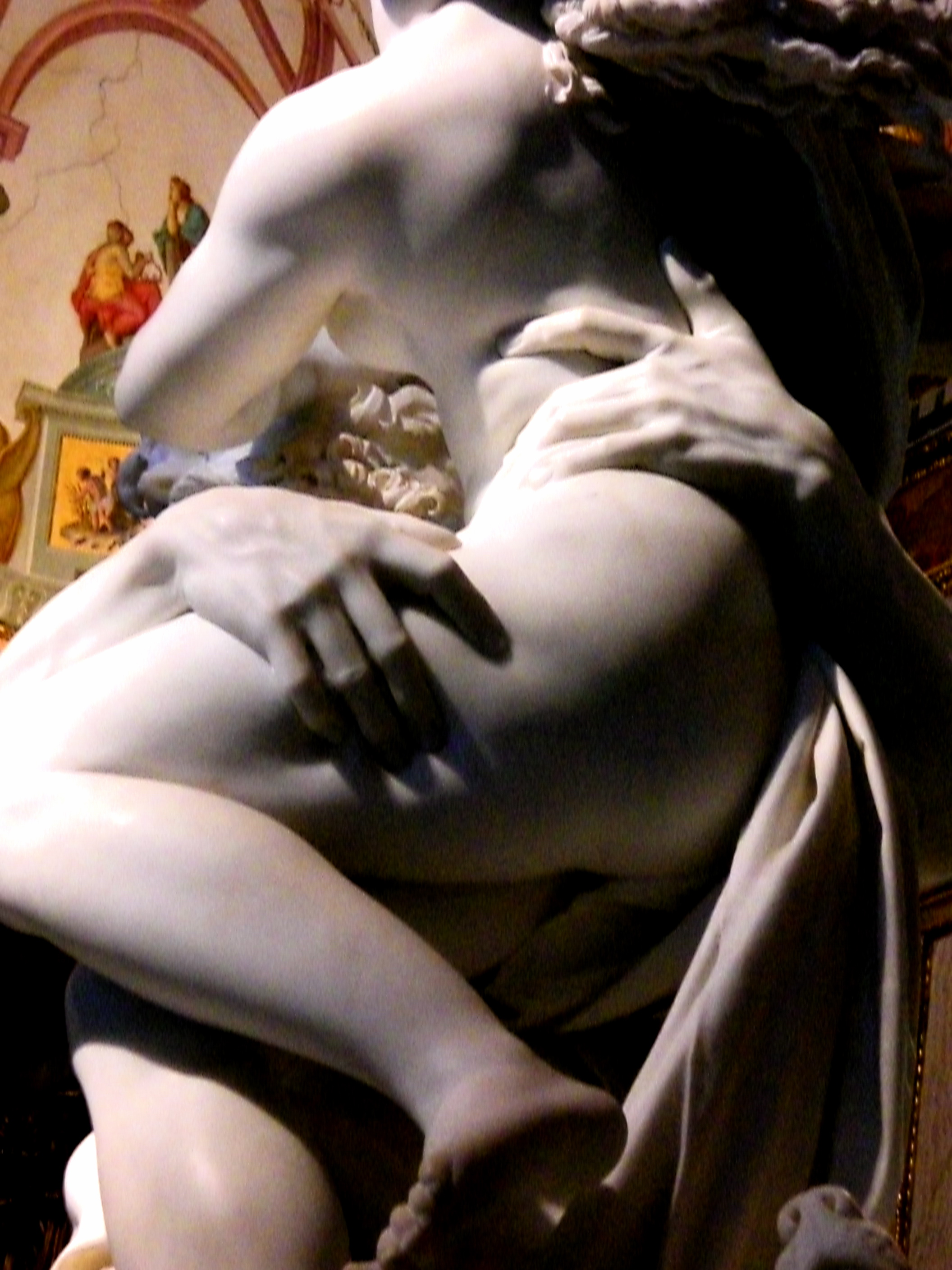 A detail of the Rape of Proserpina sculpture by Bernini in the Galleria Borghese. Photo taken by myself on 01/20/07.